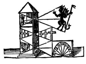 Three-tiered camera obscura, 13th century (attributed to Roger Bacon)